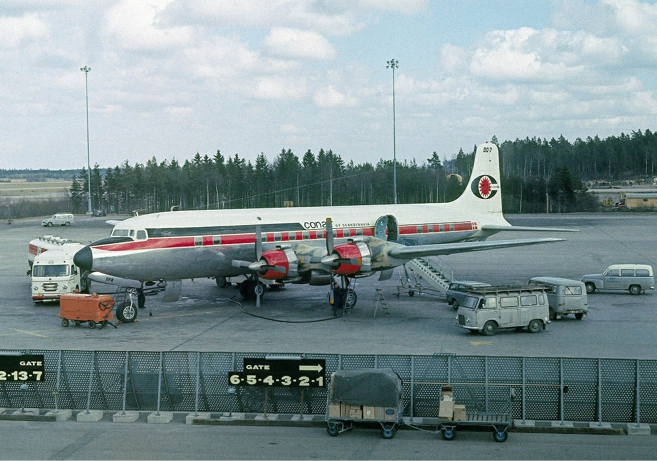 Conair Douglas DC-7